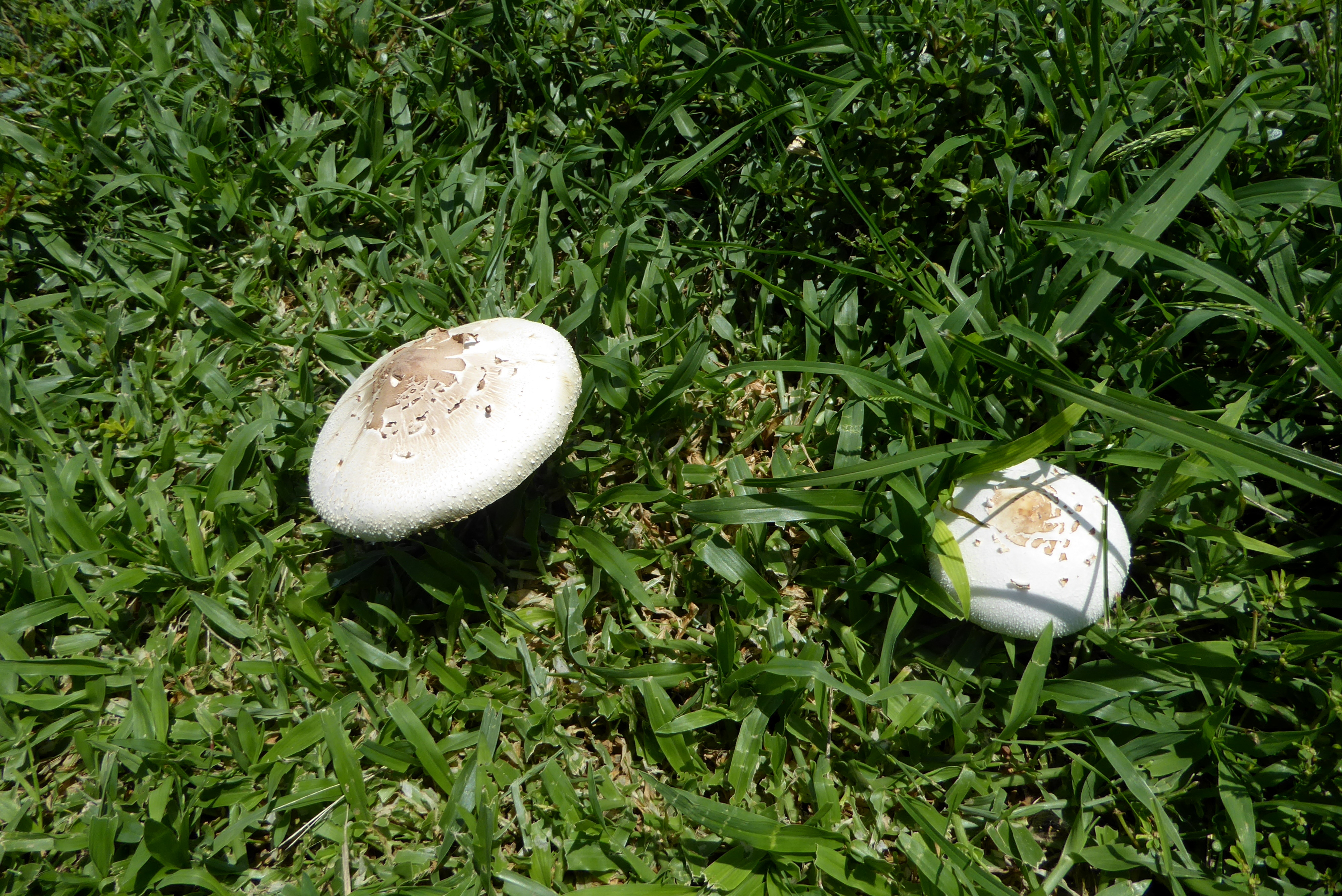 Edith Wolfson Park